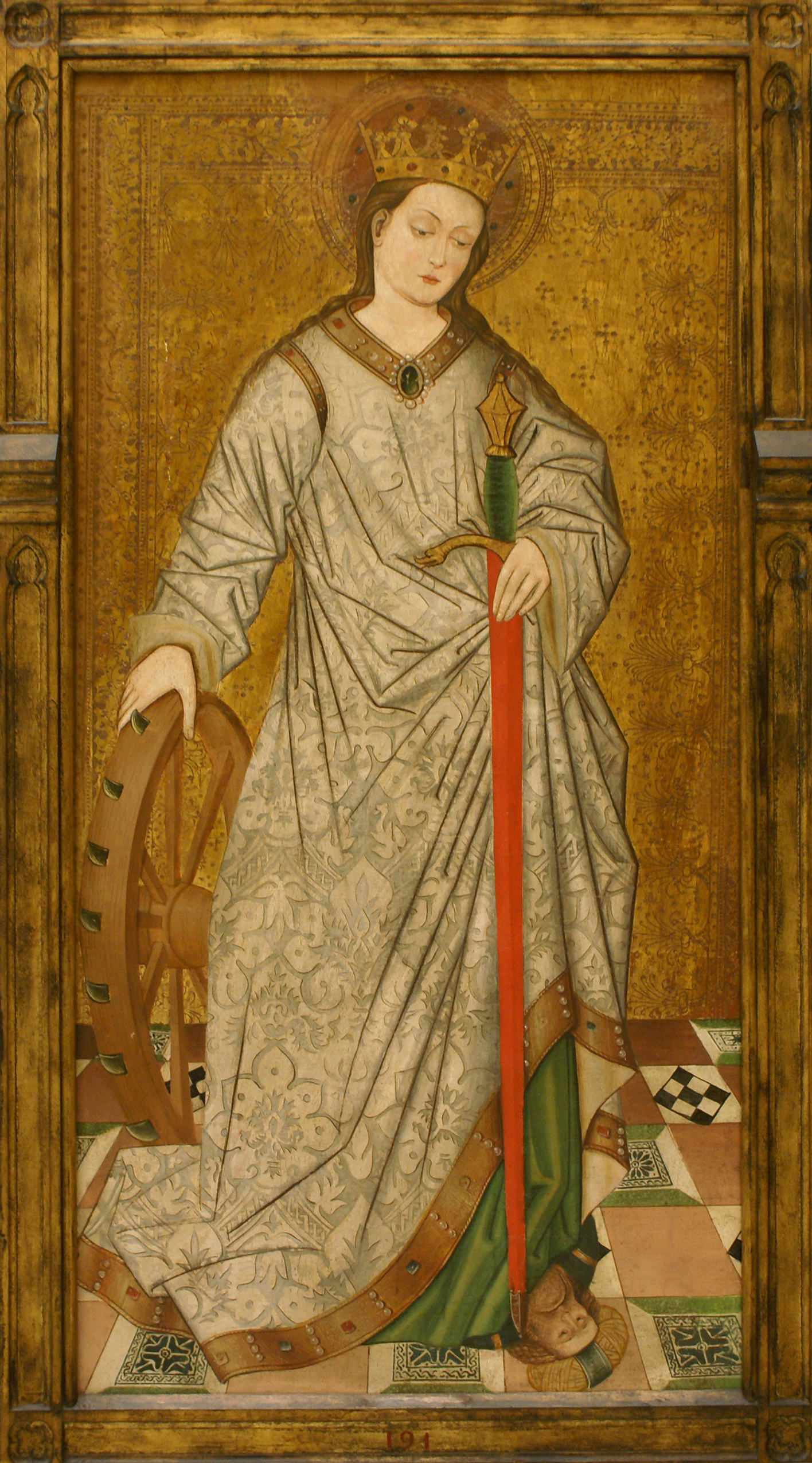 Catherine of Alexandria by Maestro de Altura. XVe siècle. Museu Belles Arts. Valencia (Spain)